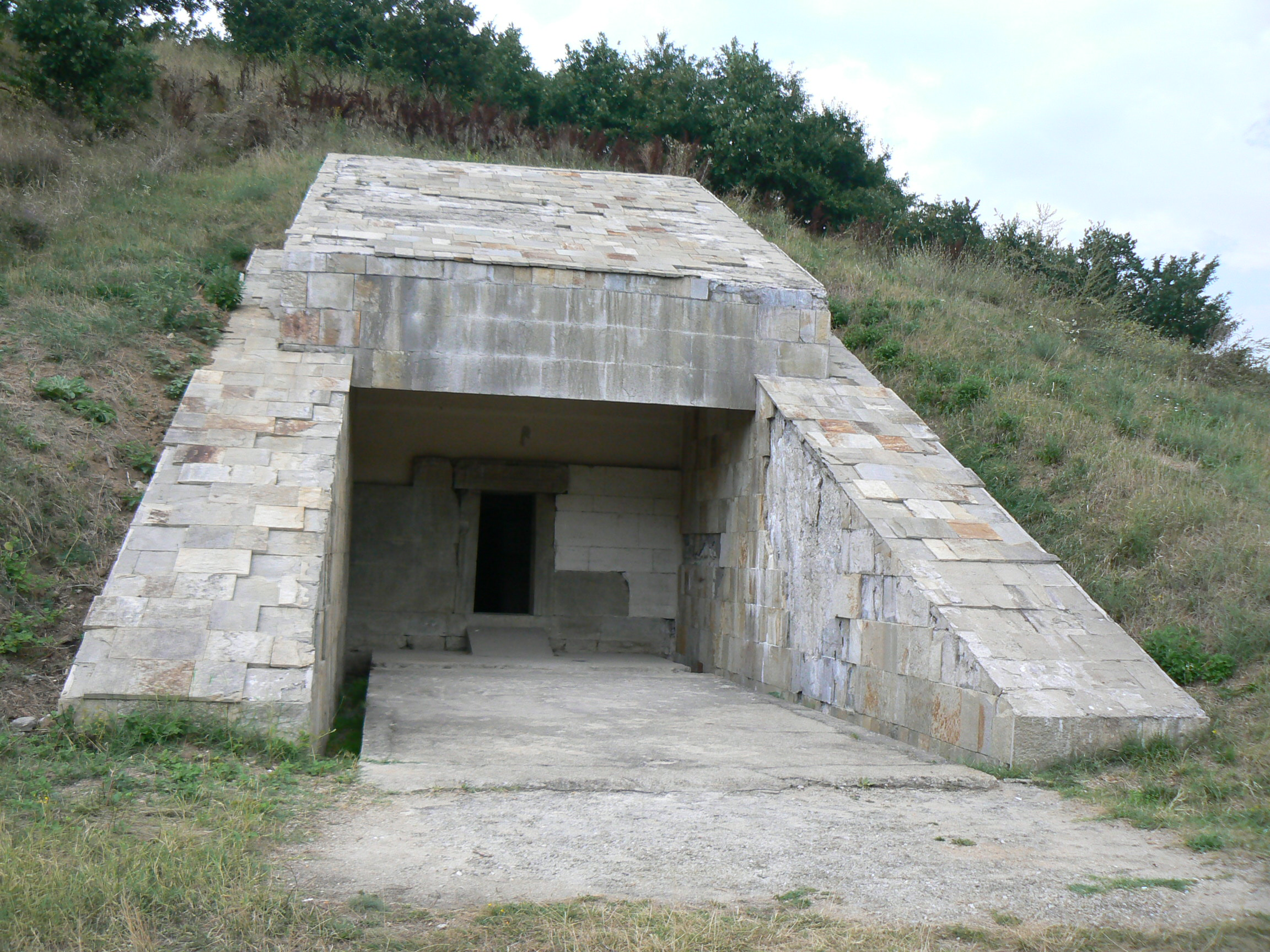 Thracian tumulus near the town of Strelcha, Bulgaria